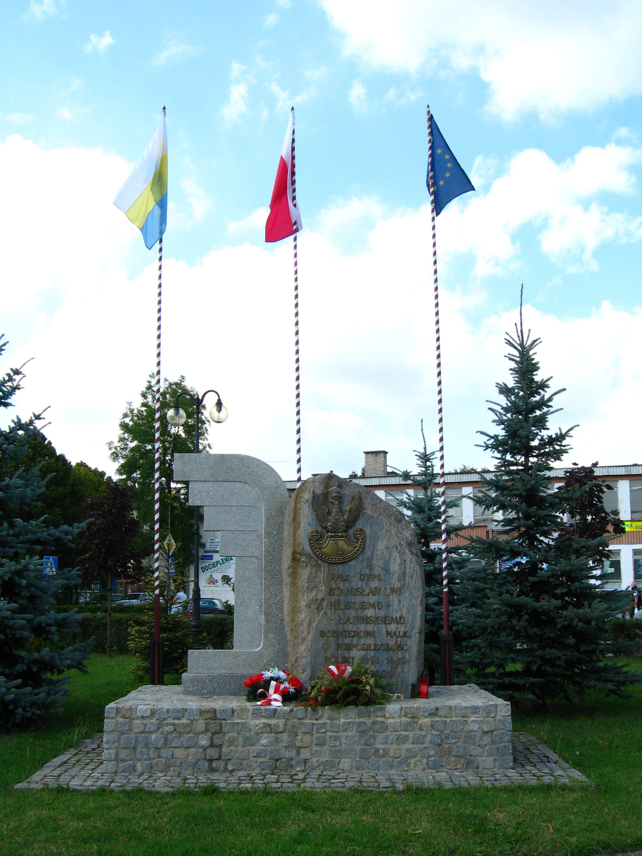 Monument of Stanisław Nilski-Łapiński — „For hero of fights for Poland's independece” (2005)